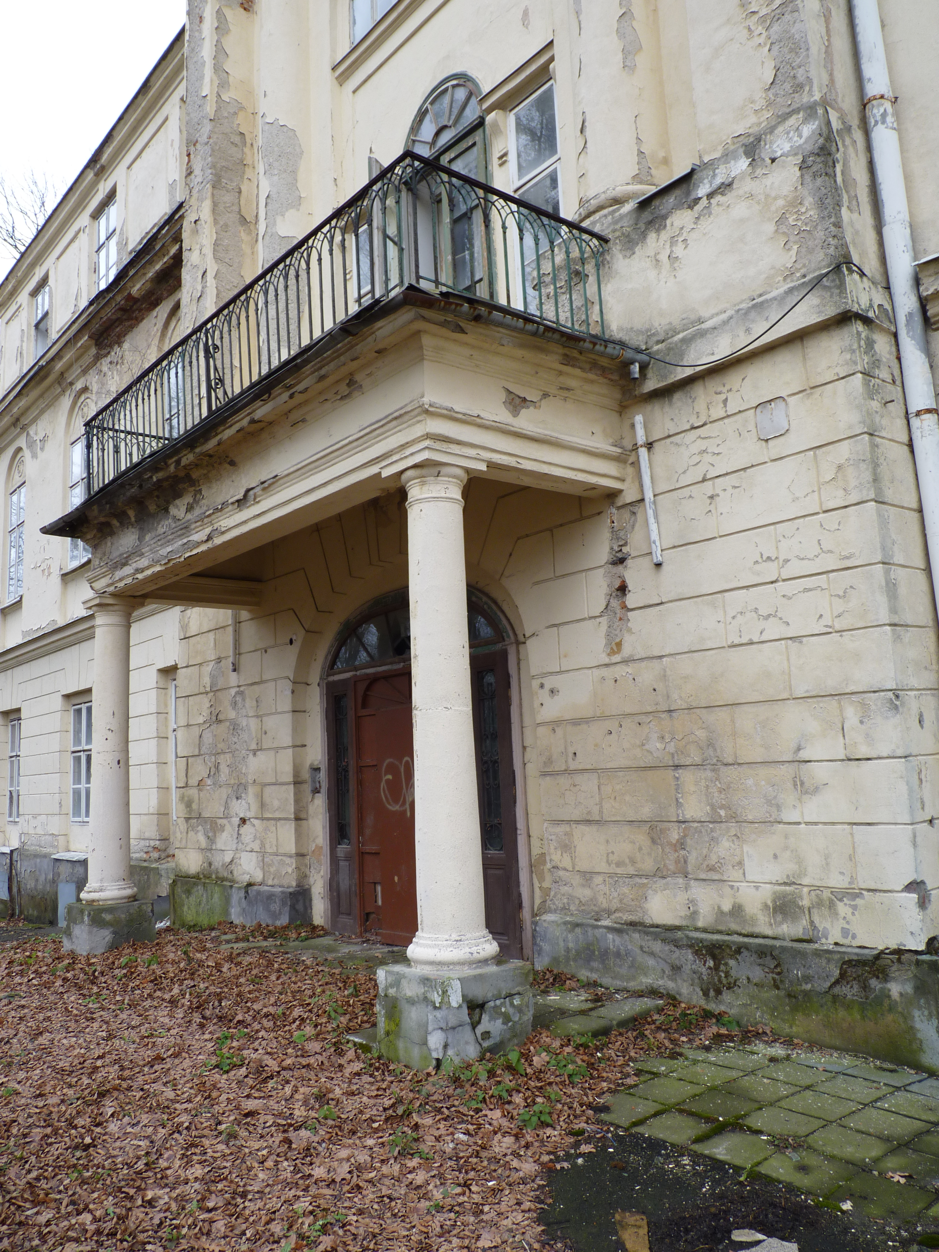 Castle, Hnojník, Frydek-Mistek District, Moravian-Silesian Region, Czech Republic